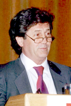 Melvyn Bragg speaking at the LSE.